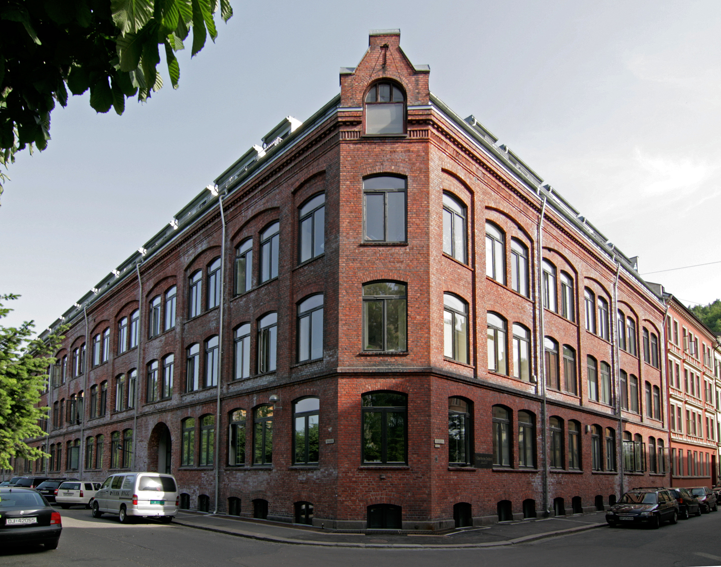 Standard shoe factory, Oslo.